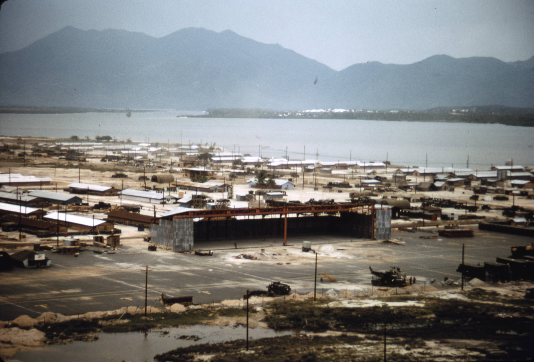 The 14th Engineer Battalion is constructing this 75' x 202' aircraft hangar at Dong Ba Thin